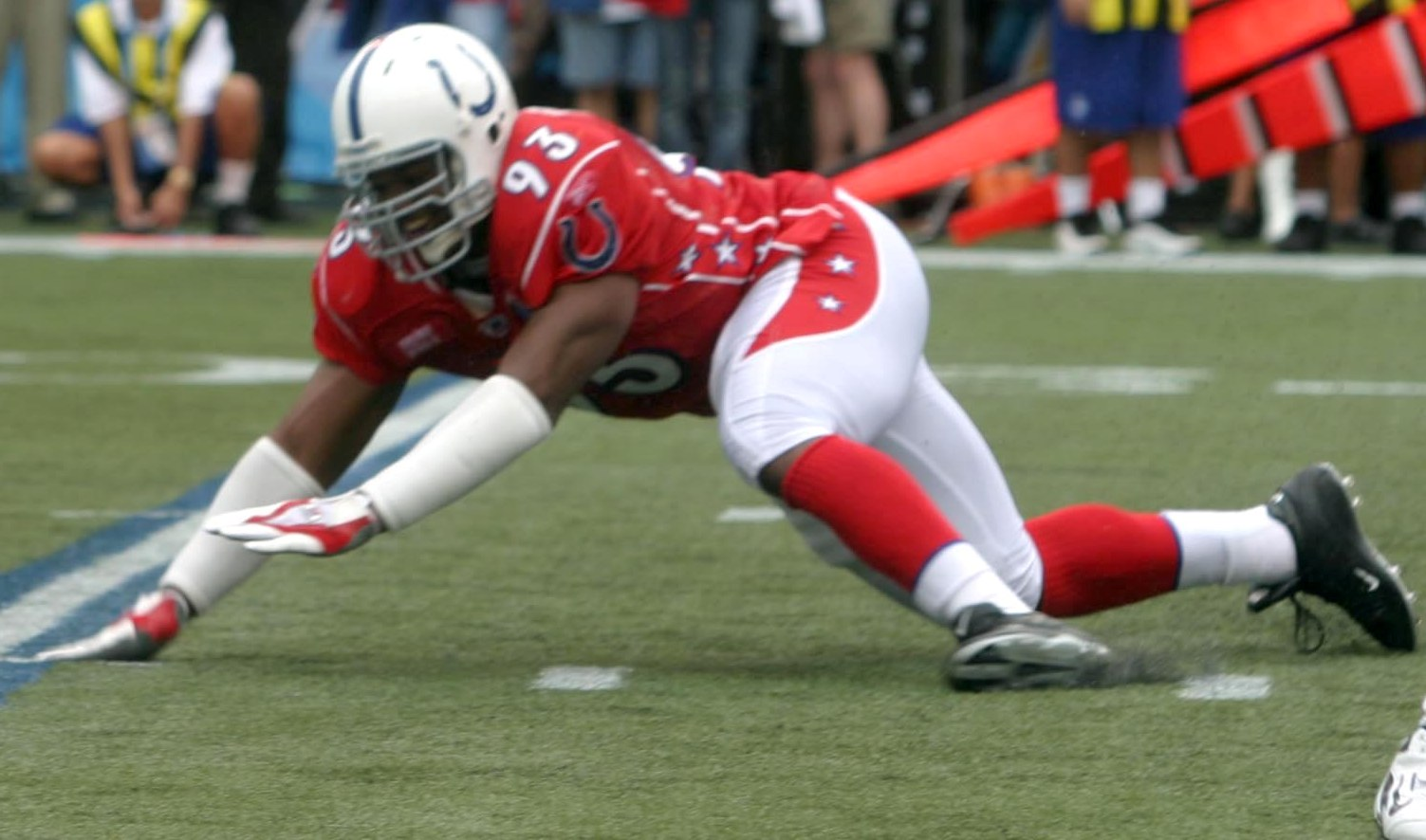 Dwight Freeney(en), of the Indianapolis Colts (en) attempts to tackle Michael Vick in the 2006 Pro Bowl held at Aloha Stadium in Honolulu.